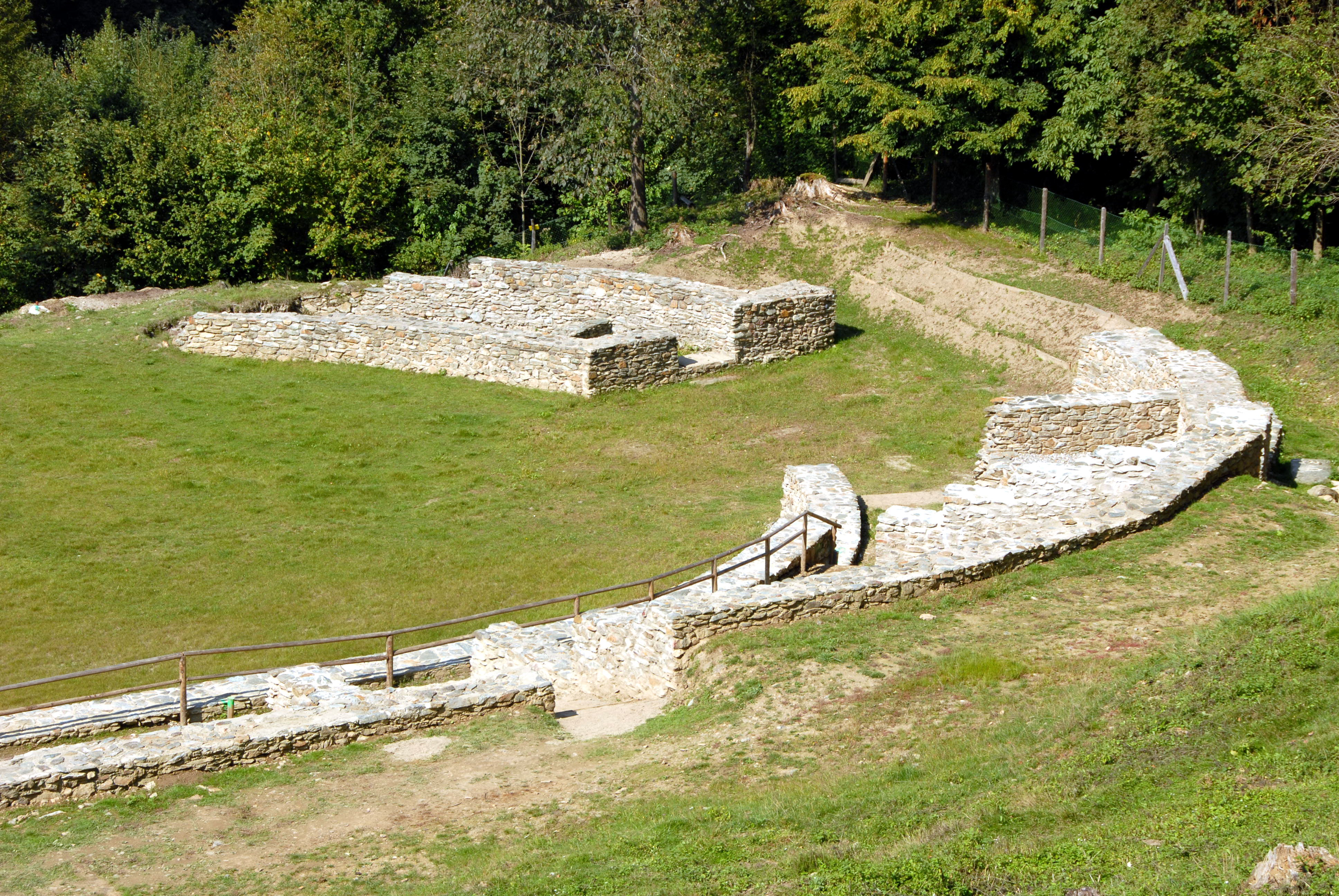 Northern part of the excavation site of the Roman arena at the ancient Noricum capital Virunum II, market town Maria Saal, district Klagenfurt Land, Carinthia, Austria, EU